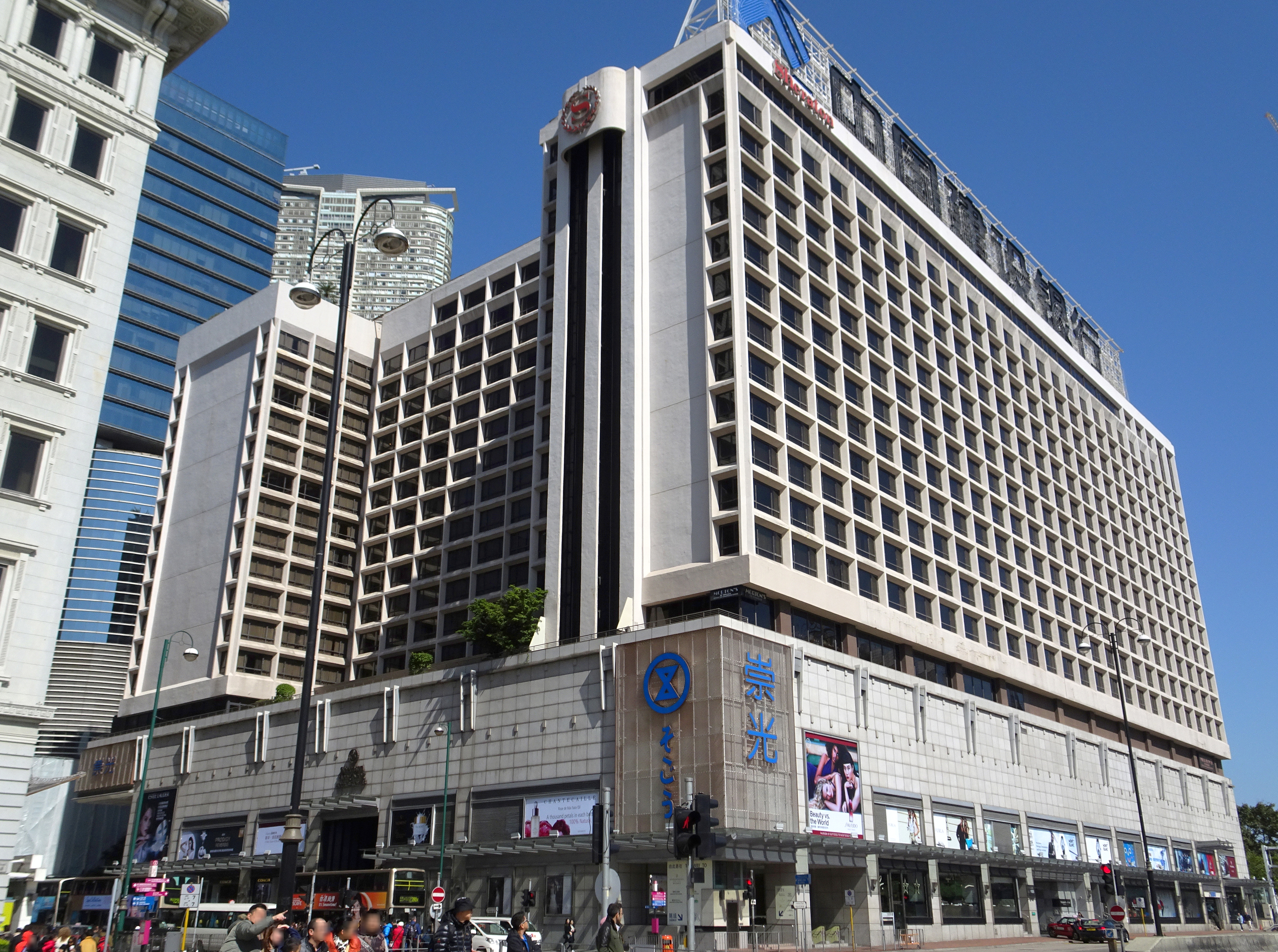 Sheraton Hong Kong Hotel & Towers in Tsim Sha Tsui, Hong Kong.